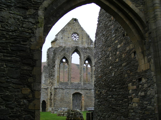 Valle Crucis Abbey Ruins View of the west front